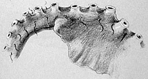 Drawing of an arm and part of the web of Grimpoteuthis pacifica